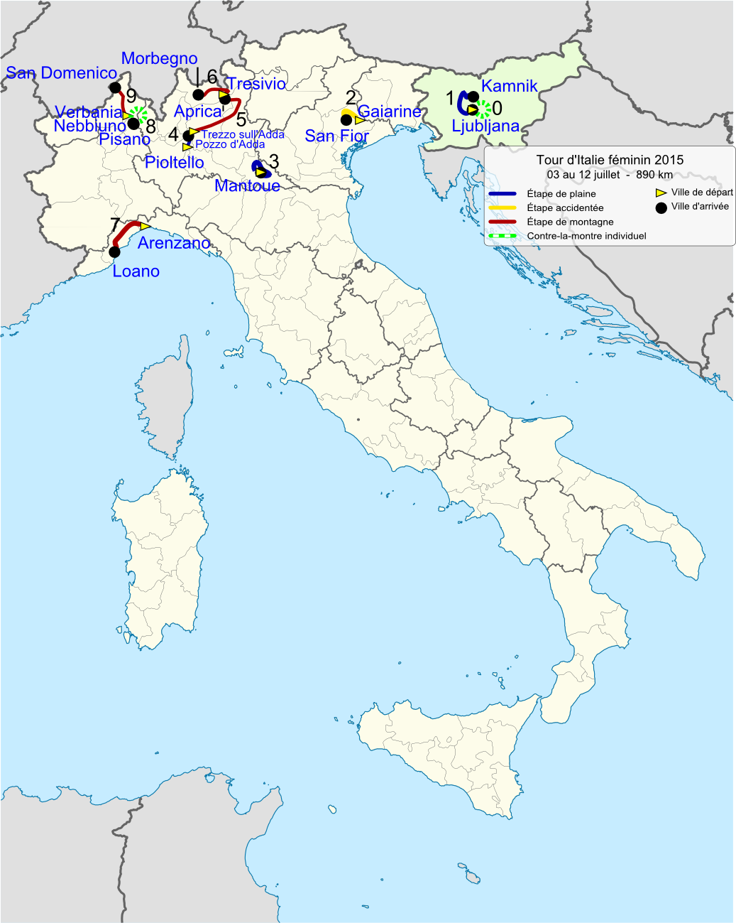 Overview map of the Giro Donne 2015. Based on Italy_provincial_location_map.